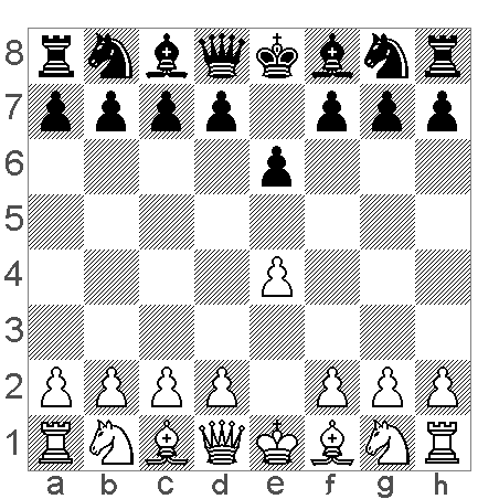 chess diagram French defence Source: CBlight + my processing